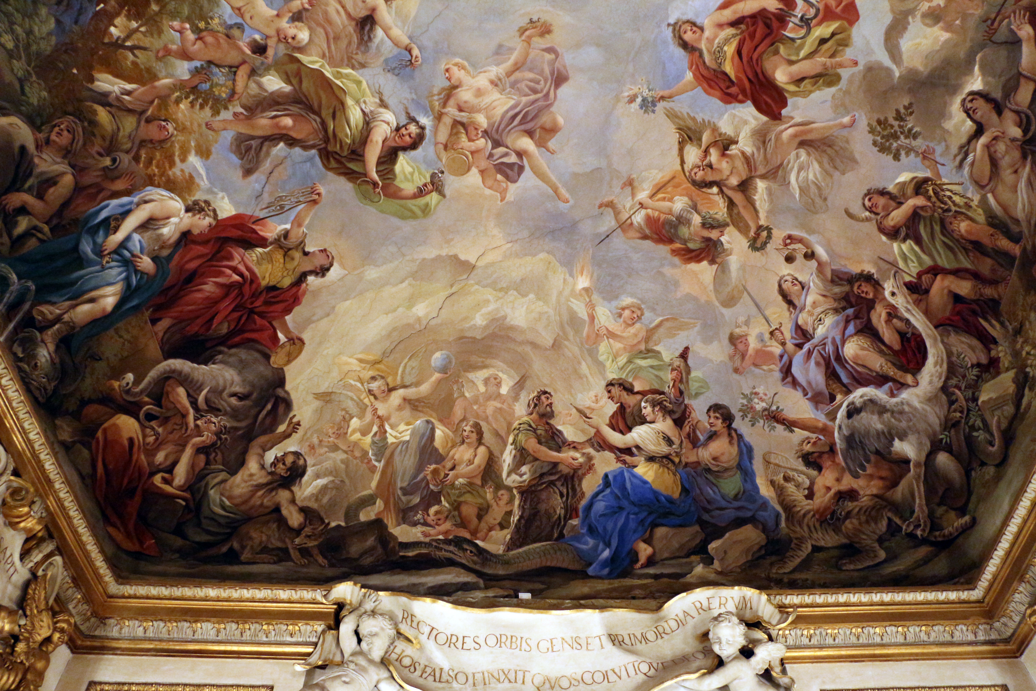 Apotheosis of the Medici family by Luca Giordano